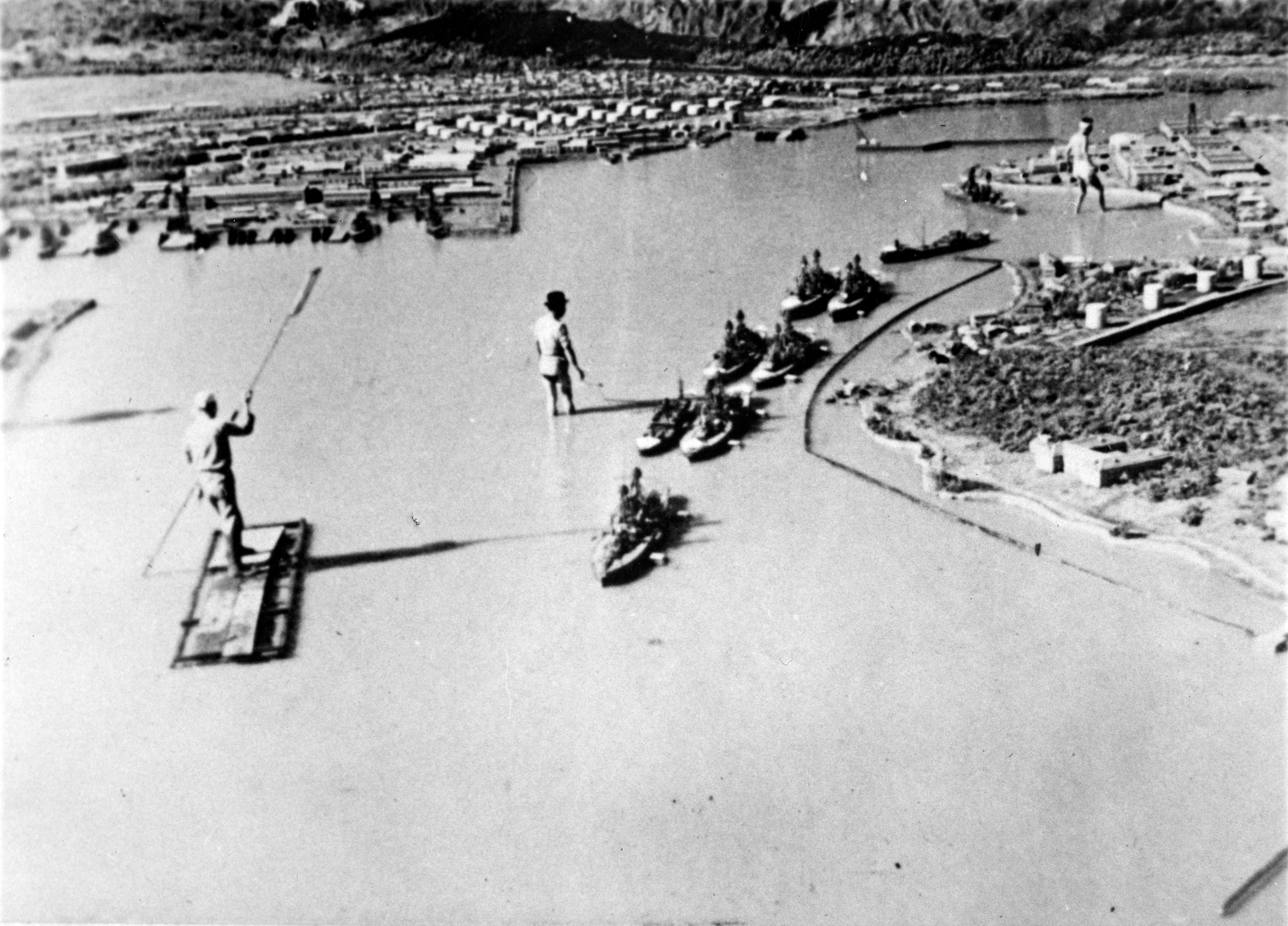 View of a mock-up of U.S. Naval Base, Pearl Harbor, Hawaii (USA), constructed in Japan in to take movie "Hawai Mare oki kaisen". This image was brought from Japan to the USA at the end of World War II by U.S. Navy Rear Admiral John Shafroth.